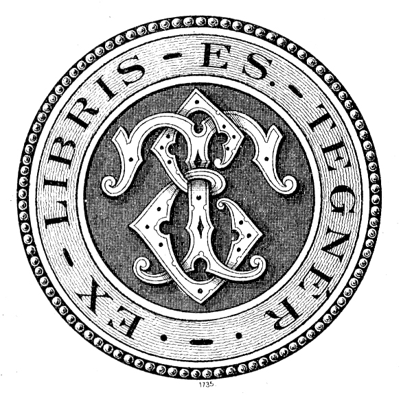 19th-century monogrammed "ET" bookplate used by Esaias Tegnér (II), lived 1782-1846